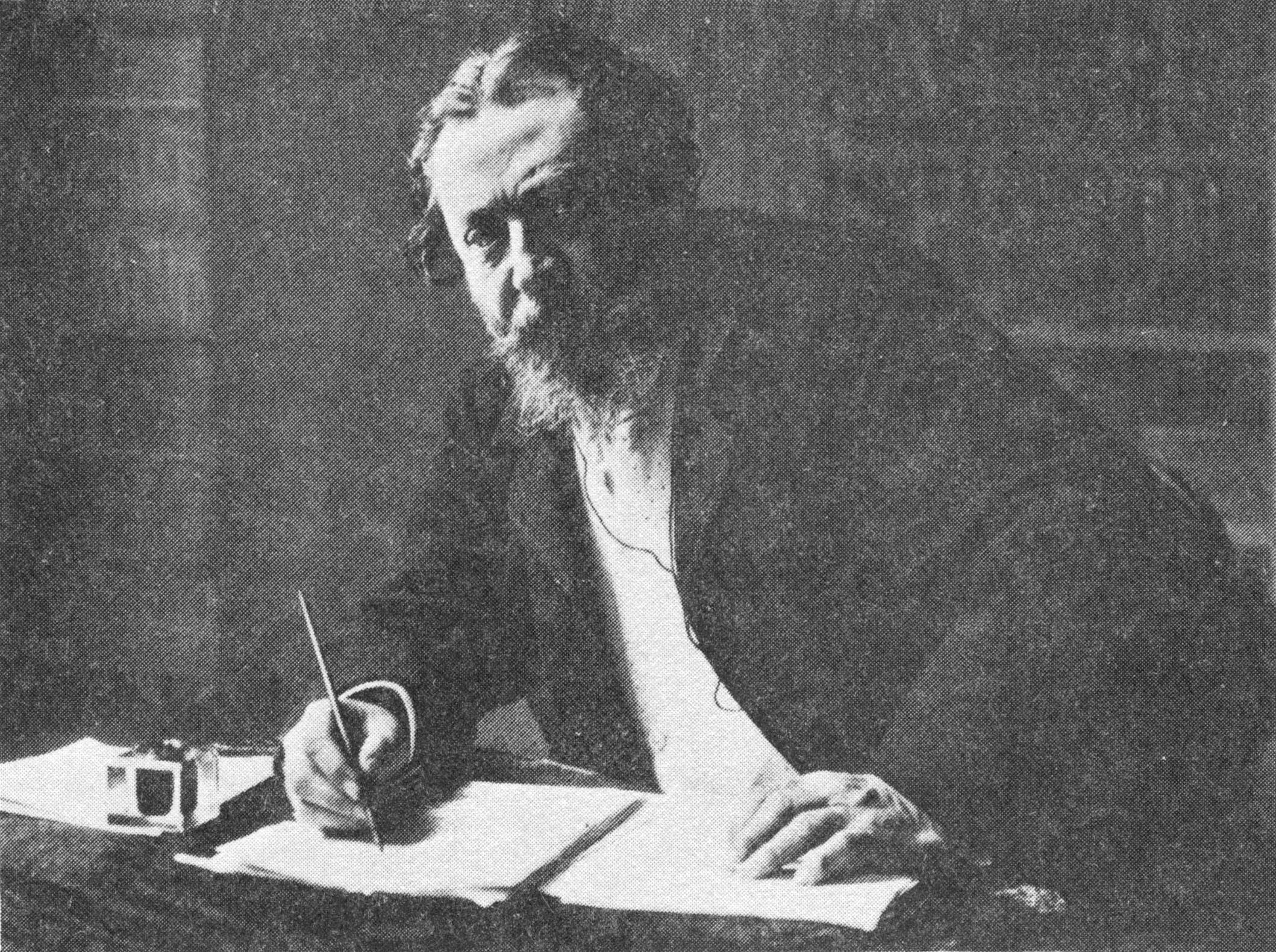 Catulle Mendés.